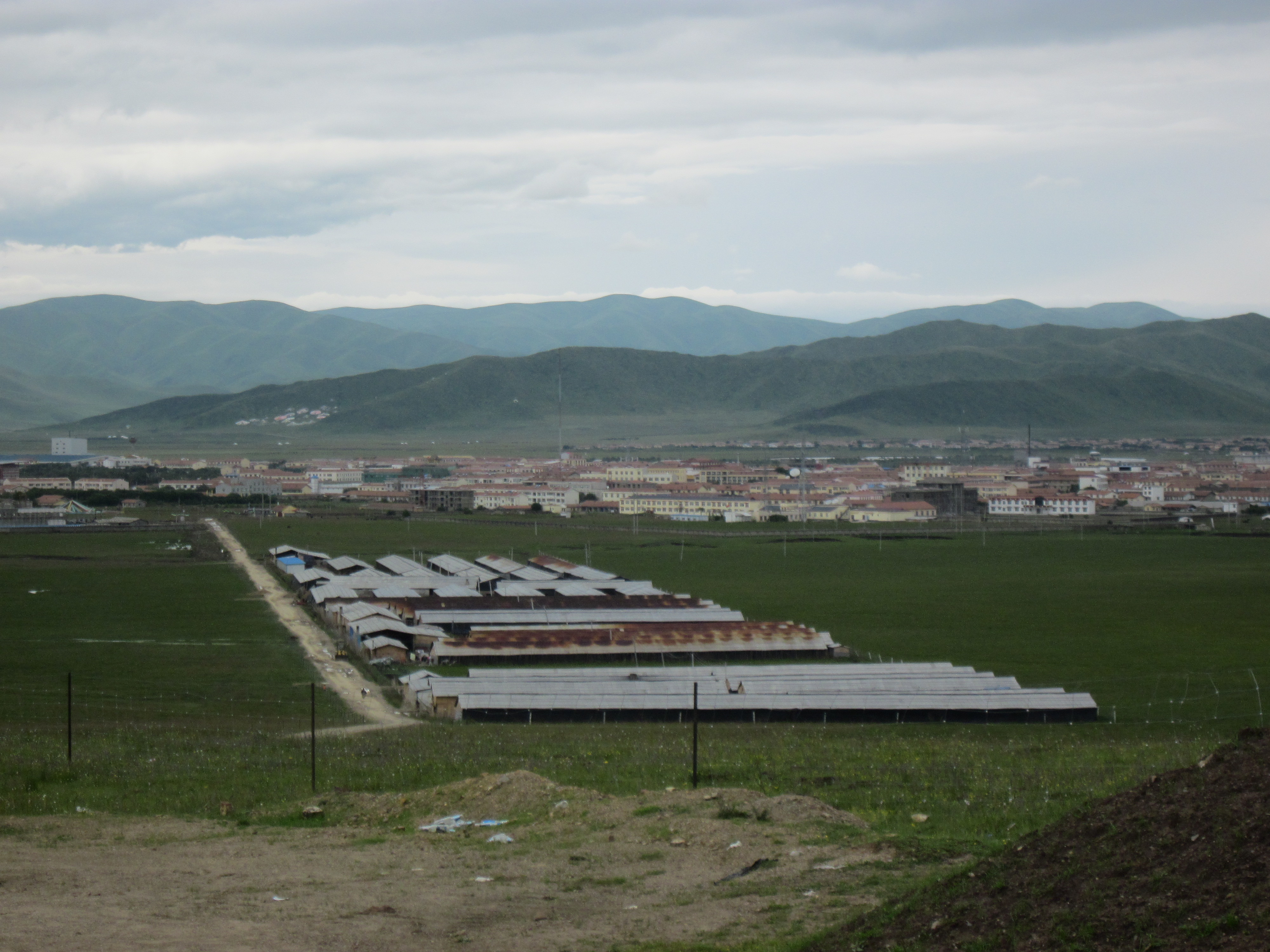 Hongyuan County Seat